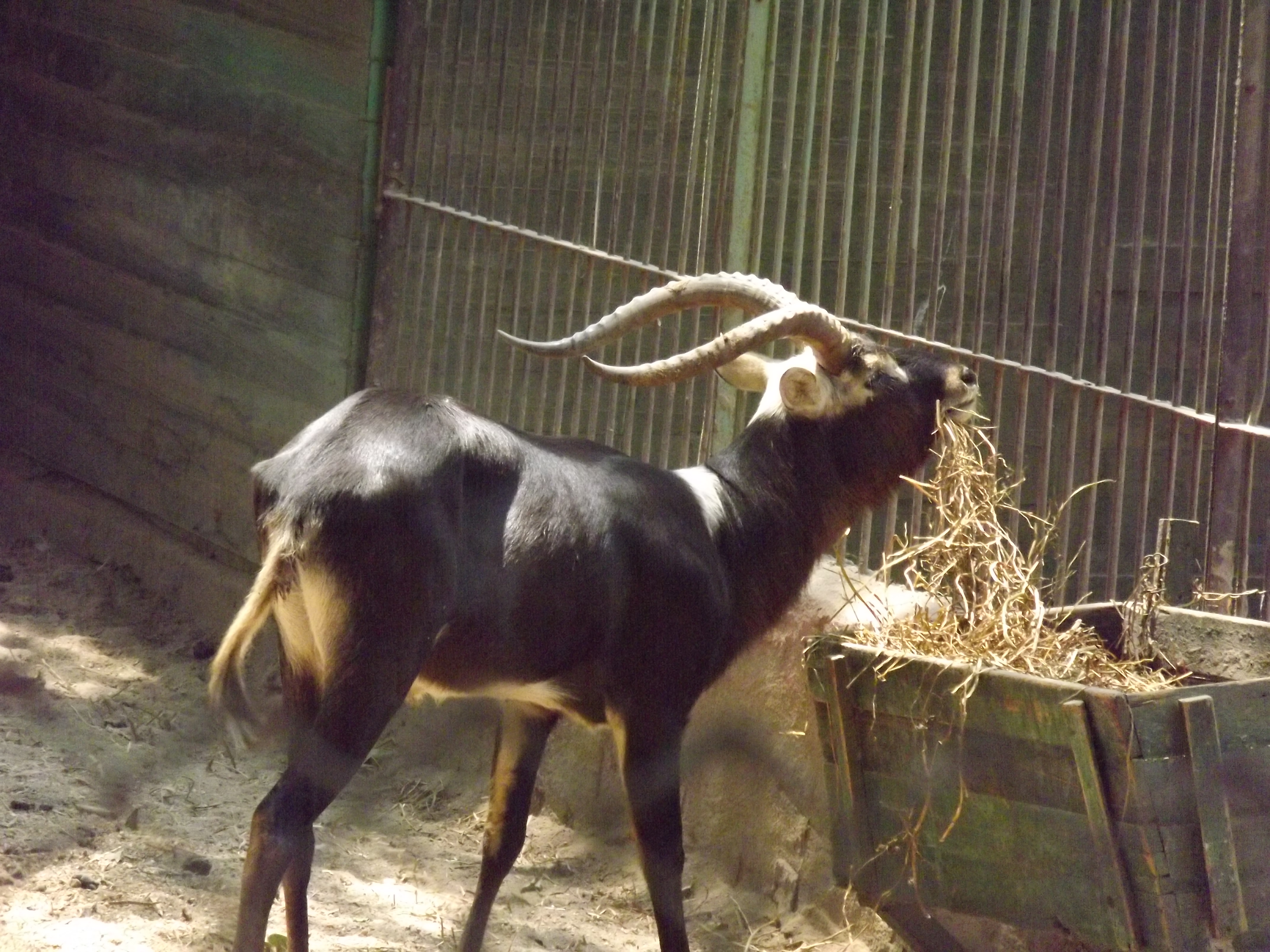 Nile lechwe